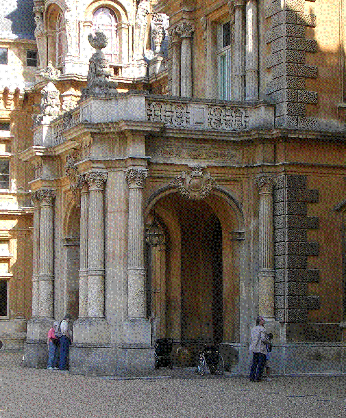 Photograph of a porte-cochere taken by uploader to illustrate article of that name.